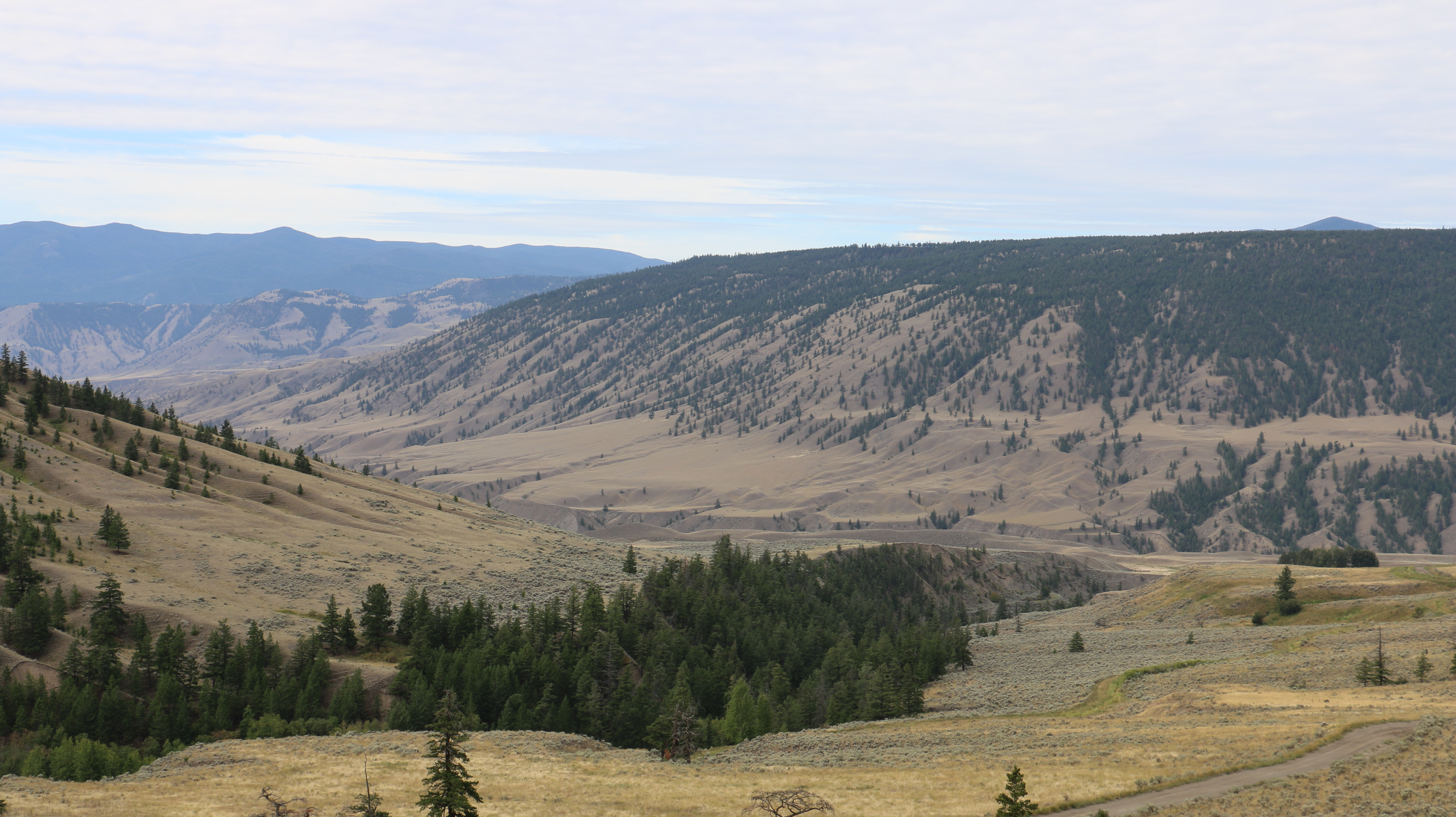 Canoe Creek in the Cariboo Region of British Columbia, as it joins the Fraser River. Clyde Mountain is the forested ridge in across the valley.